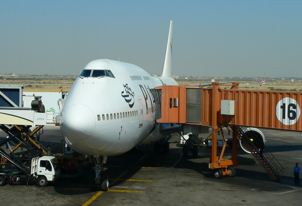 A PIA 747-367 parked at the Domestic satellite of the Jinnah Terminal at Karachi International airport. Photo by Waqas Usman. More images at and